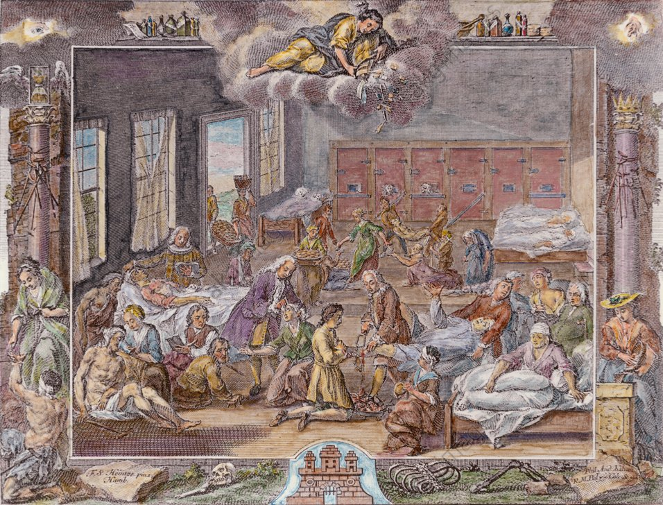 Plague hospital in Hamburg. Copper engraving, coloured, 1750, by Philipp Andreas Kilian (1714-1759)